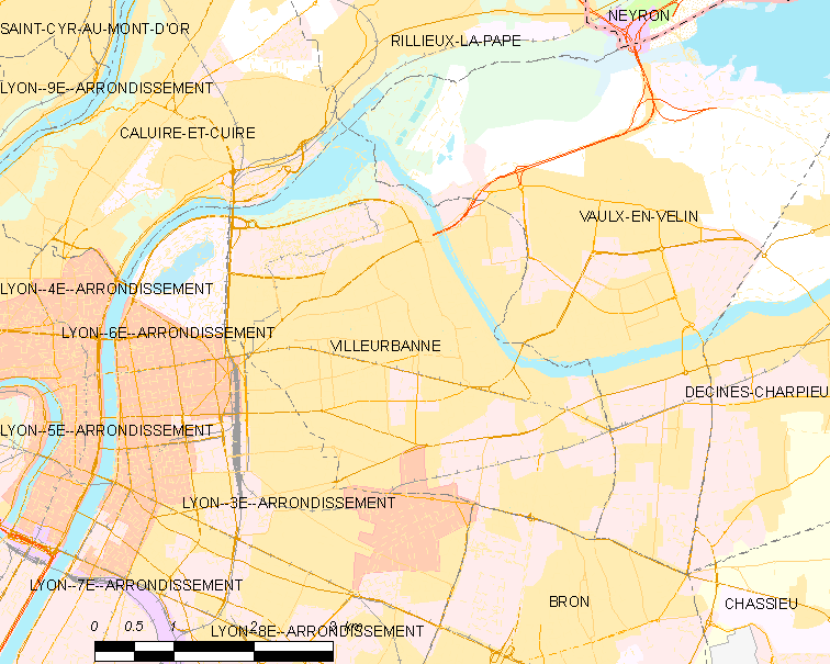 Map of French municipality